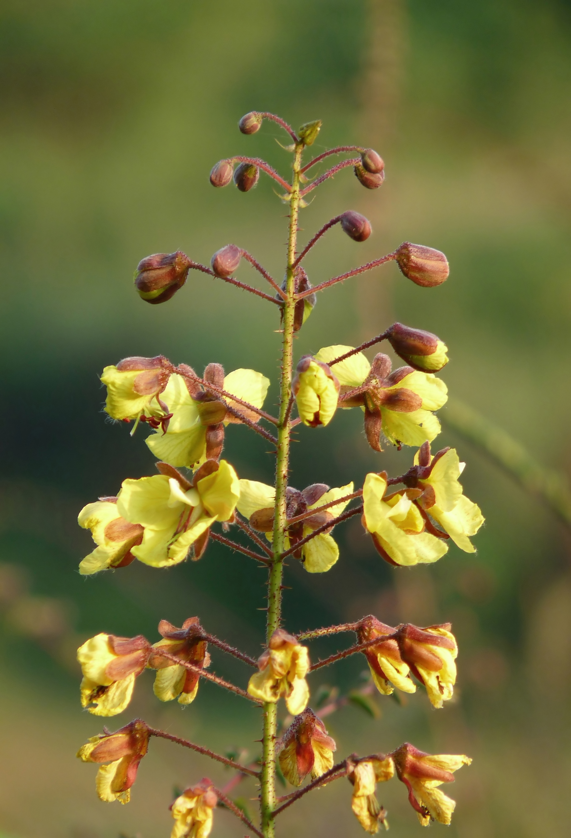 Mimosa Thorn (Caesalpinia mimosoides) is a woody climber. Branch-lets are densely glandular hairy, with recurred prickles. Leaves are 22-36 cm long double-compound. Pinnae are opposite, 13-23 pairs, about 3.5 cm long. Leaflets are opposite, 7-14 pairs, oblong, about 9 × 4 mm, ab-axially and marginally with bristles. Lax flower racemes are borne at the end of branches. Flowers are large, more than 50 per inflorescence. Flower-stalks are unequal in length, 1.5-2 cm in upper part and 3-3.5 cm in lower part of inflorescence. Sepals are 5, 10 × 8 mm. Petals are bright yellow, round, upper one smaller, about 8 mm wide, others larger, about 1.7 × 1.3 cm. Stamens are 10, filaments 1.8 cm, densely cottony in lower part. Ovary is 5 mm, densely hairy, 1- or 2-ovuled, style 1.4-1.5 cm. Pod is obovoid, curved, 4-5 × 2.5 cm, splitting open. Seeds are 1 or 2, oblong. Flowering: November-December. (Previously published at:Caesalpinia mimosoides)